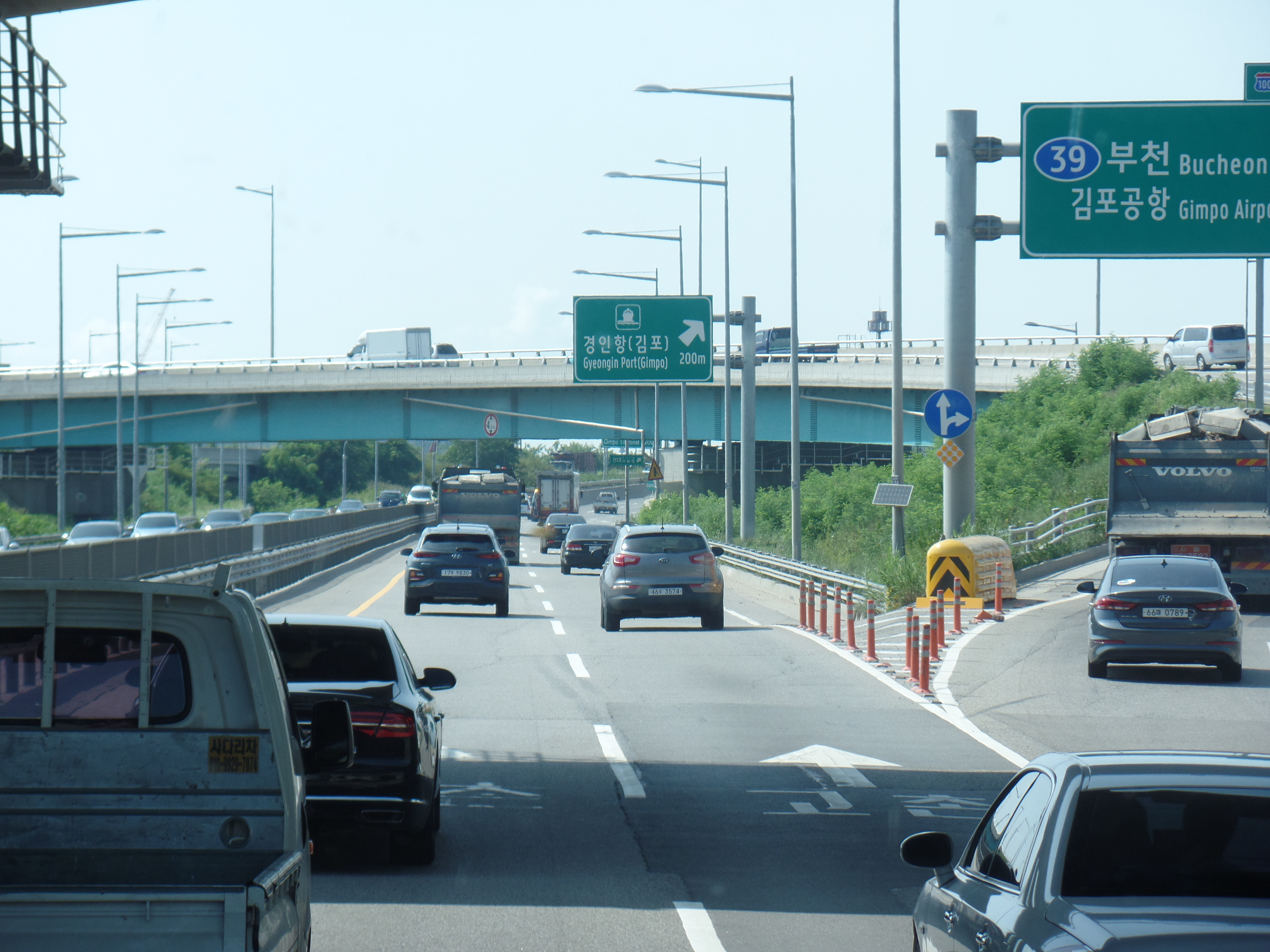 Haengjudaegyo Bridge Interchange Exit, Olympicdaero End and Gimpohangangro Begin(Unyang IC Dir)